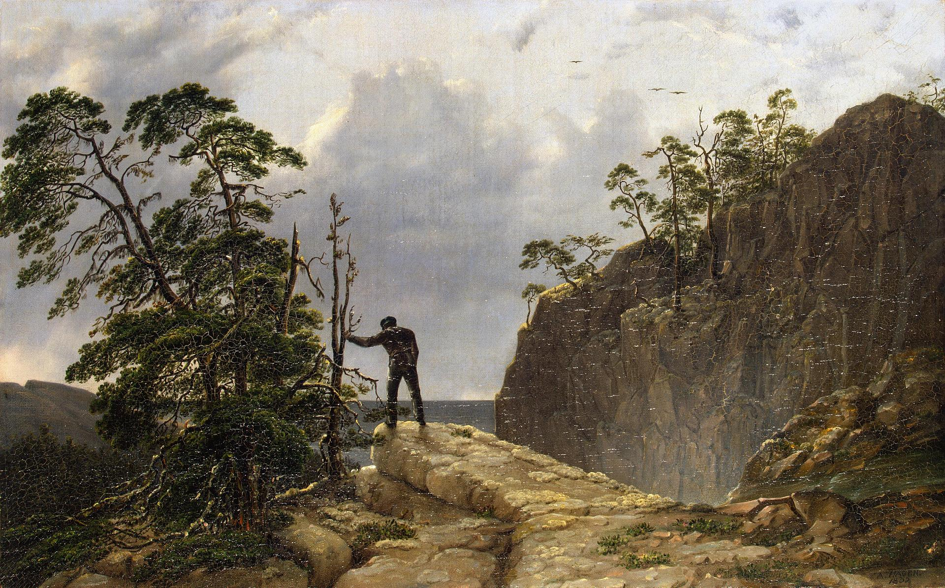 Mountains by A. M. Hagen Hermitage Museum Native nameГосударственный ЭрмитажLocationSaint PetersburgCoordinates59° 56′ 26″ N, 30° 18′ 49″ E Established1764Web pagehermitagemuseum.orgAuthority control : Q132783 VIAF: 128956287 ISNI: 0000 0001 2285 6617 LCCN: n79100241 NLA: 35139924 GND: 2124053-X WorldCat institution QS:P195,Q132783